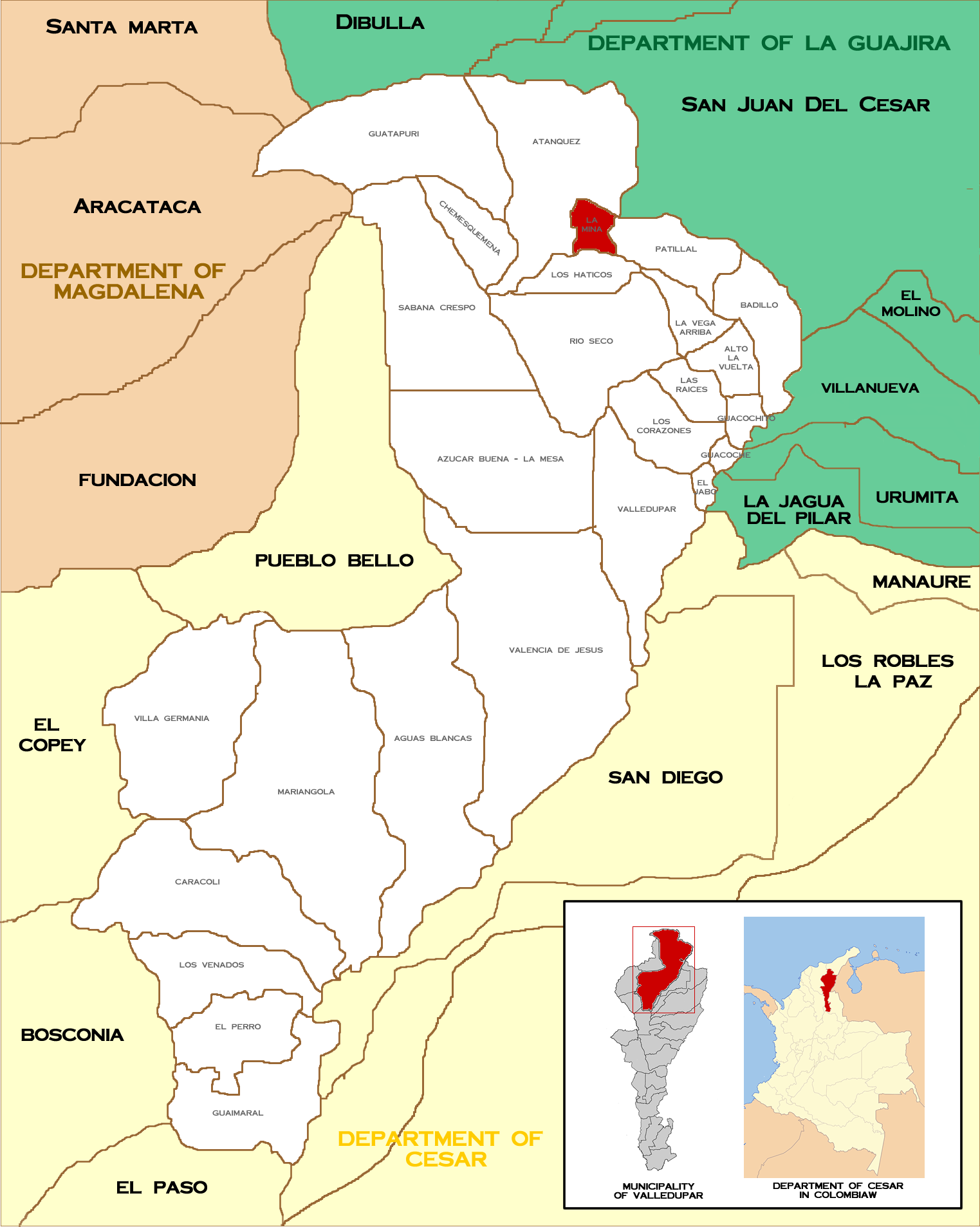 Map of Corregimientos of Valledupar, La Mina